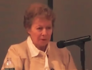 Commentary from Virginia Held, Distinguished Professor in Philosophy at the Graduate Center, CUNY, after Carol Gilligan, University Professor at New York University presented her lecture entitled "Reframing the Conversation about Difference: The Contribution of Feminist Care Ethics" at the 2012-2013 Mellon Sawyer Seminar Series at The Graduate Center, CUNY. The Graduate Center, CUNY hosts the 2012-2013 Mellon Sawyer Seminar Series, "Democratic Citizenship and the Recognition of Cultural Differences." This event was held on February 28, 2013.